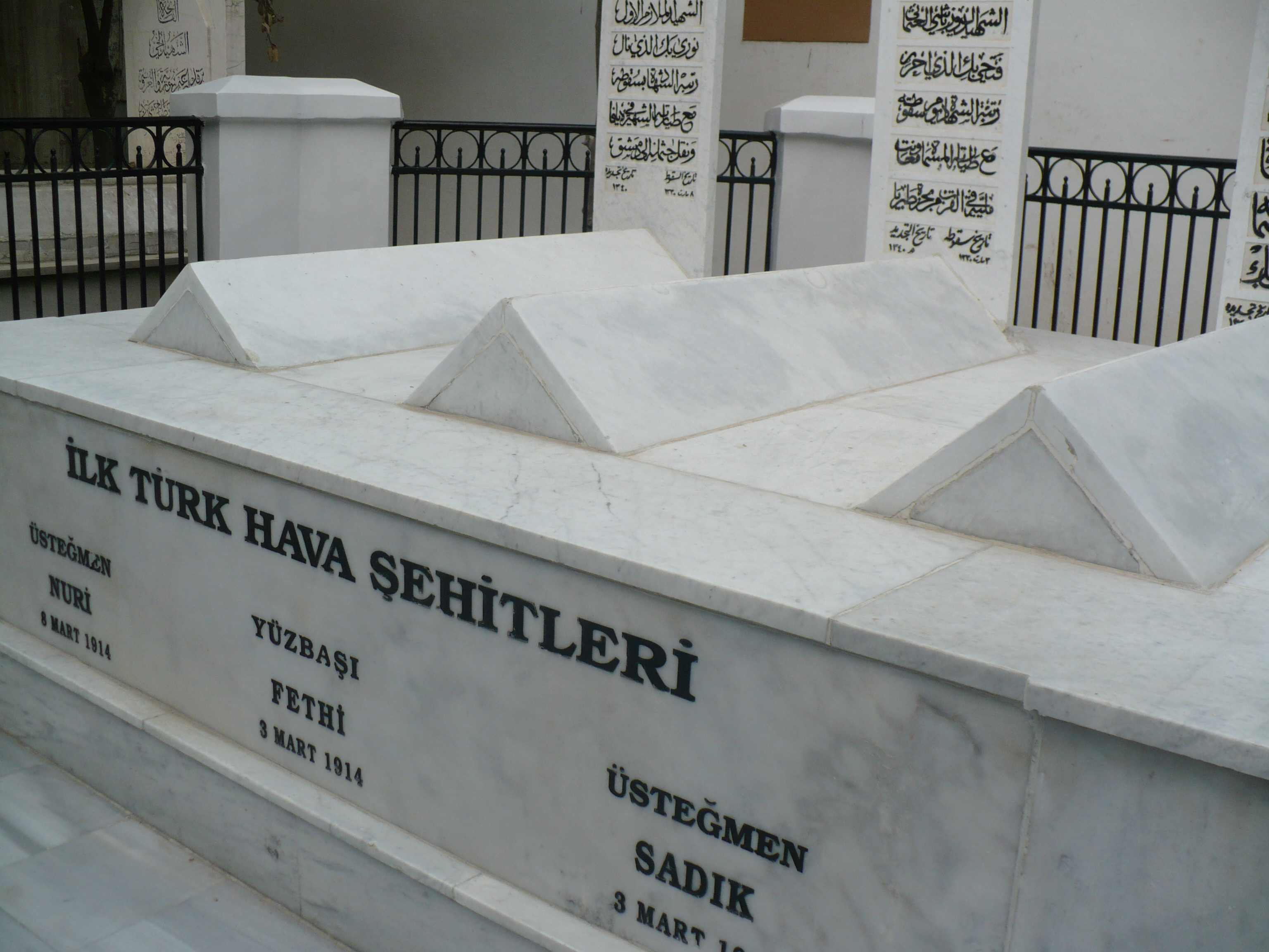 Turkish officers grave-Syria